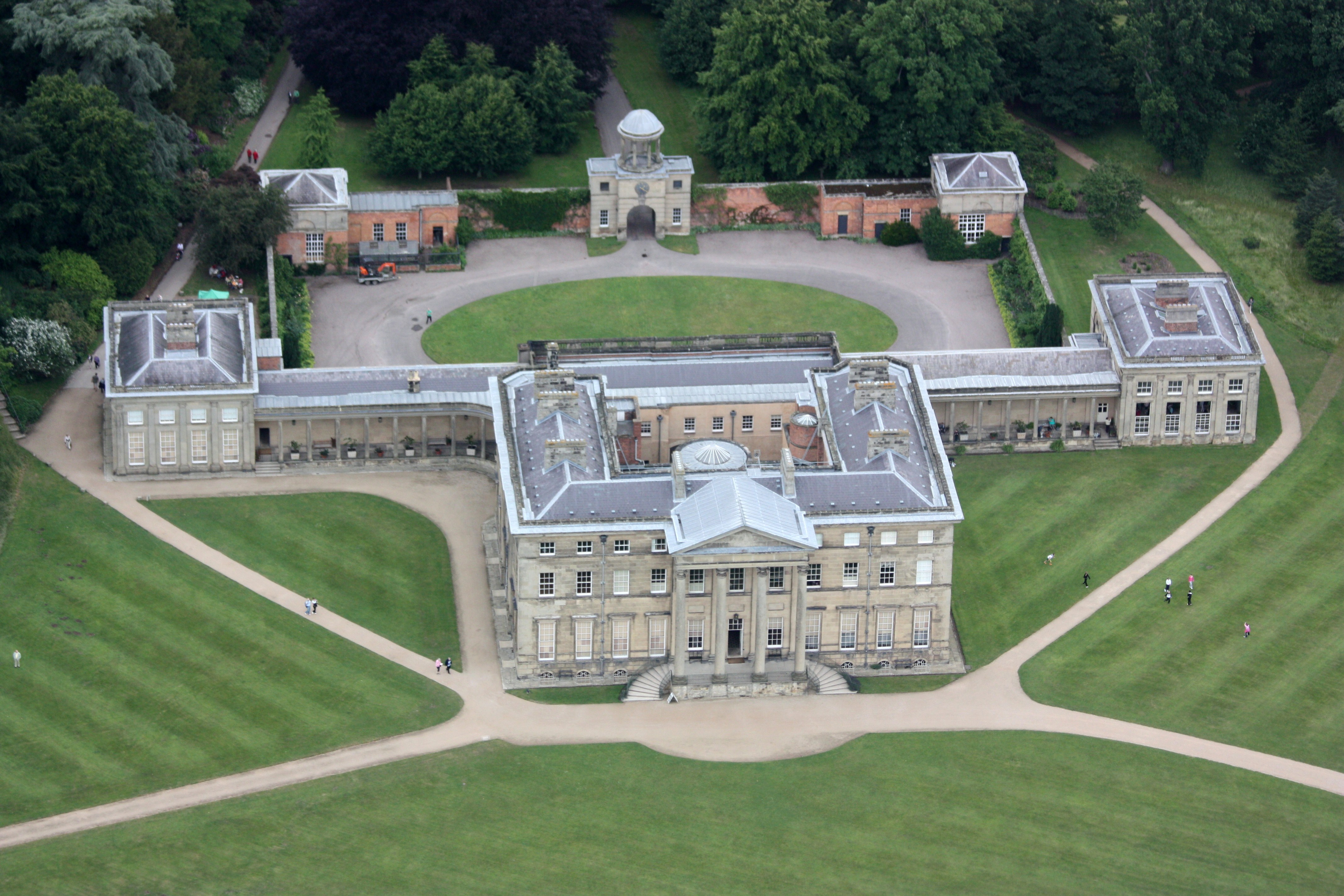 Attingham Hall, a Grade I listed country house in the Shropshire countryside, as seen from a Grob Tutor of UBAS at RAF Cosford.